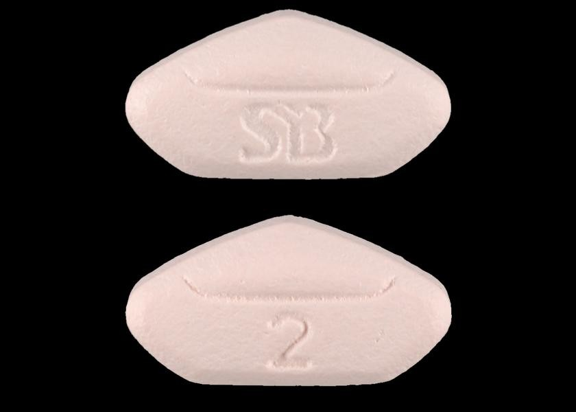 Two oral tablets of Avandia (rosiglitazone). Parameters: brand name: Avandia, generic name: rosiglitazone maleate equivalent to rosiglitazone 2 mg, imprint: SB | 2, strength: 2 mg, color: pink, size: 10 mm (0,39″), shape: five-sided, availability: ℞-only, CSA schedule: not a controlled drug, drug class: thiazolidinediones, pregnancy category: C (risk cannot be ruled out), inactive ingredients: hypromellose 2910 (3 MPA.S), lactose monohydrate, magnesium stearate, microcrystalline cellulose, polyethylene glycol 3000, sodium starch glycolate type A potato, titanium dioxide, triacetin, talc, ferric oxide red, ferric oxide yellow.